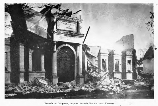 Efectos del Terremoto de 1917-18 en la Ciudad de Guatemala